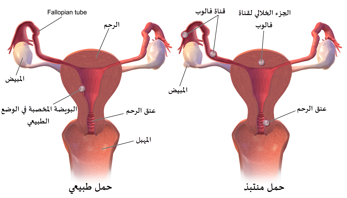 Ectopic Pregnancy